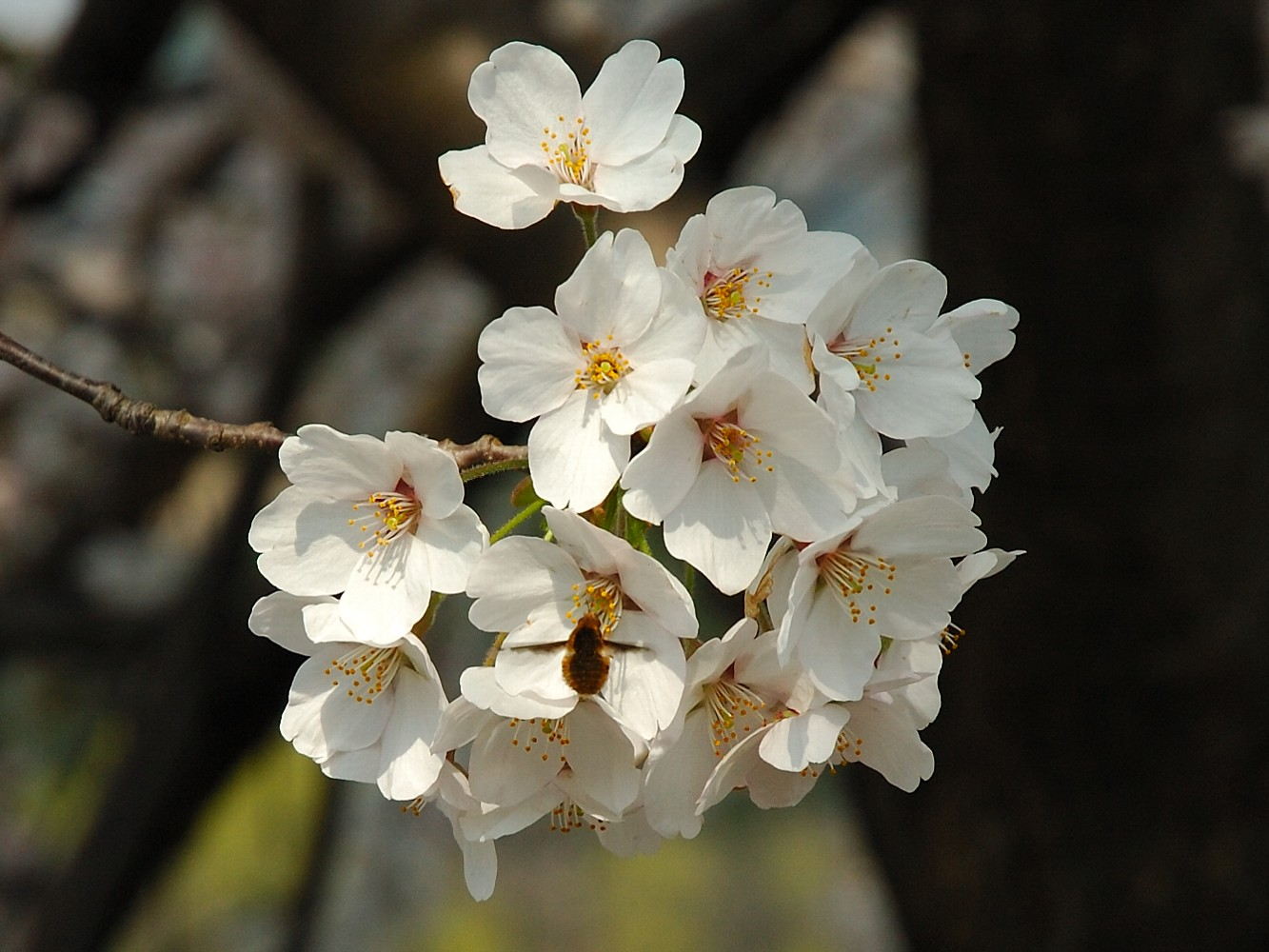 Japanese Cherry